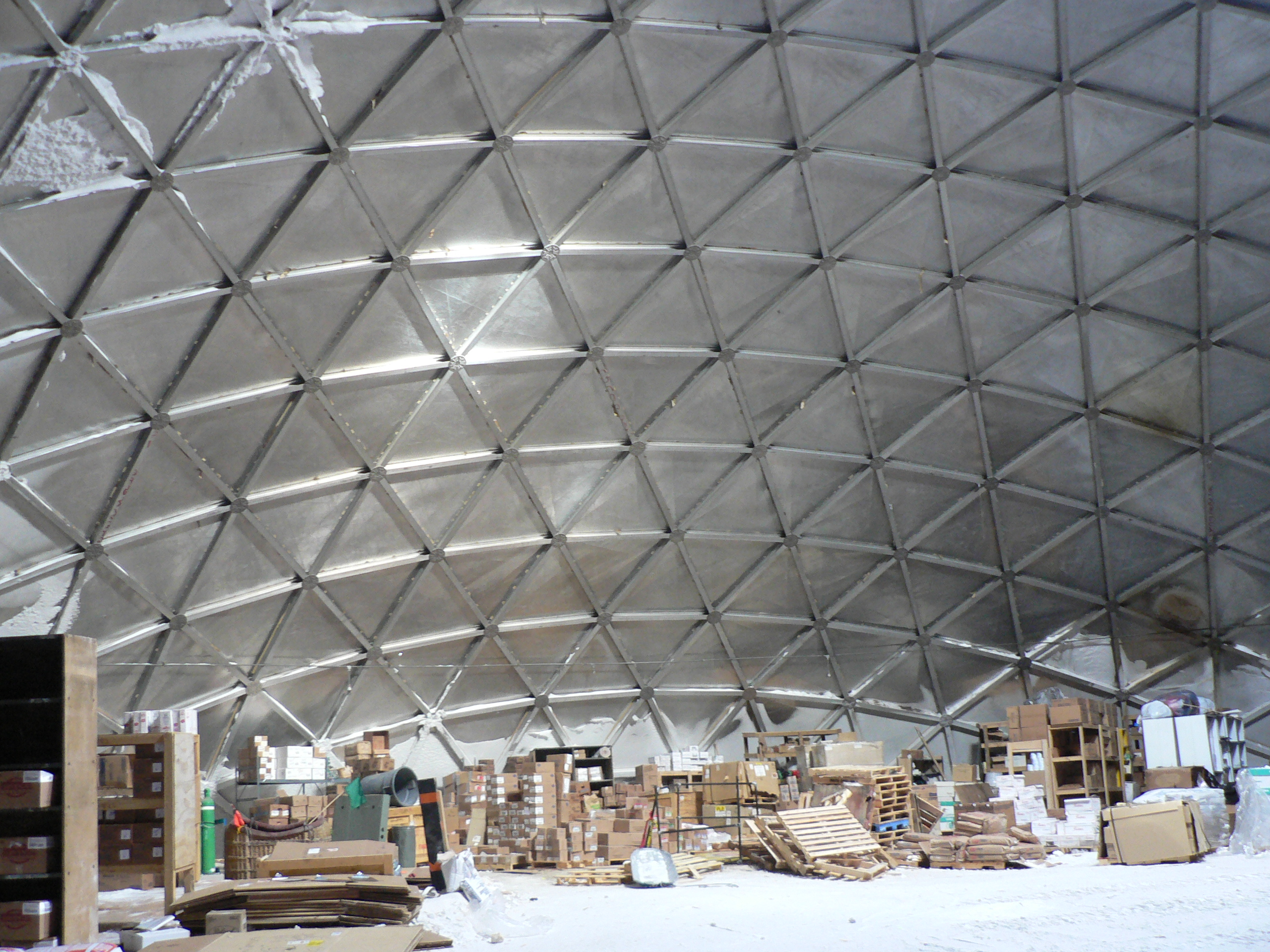 inside the dome